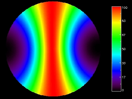 The degree of polarization with red as opposed to white